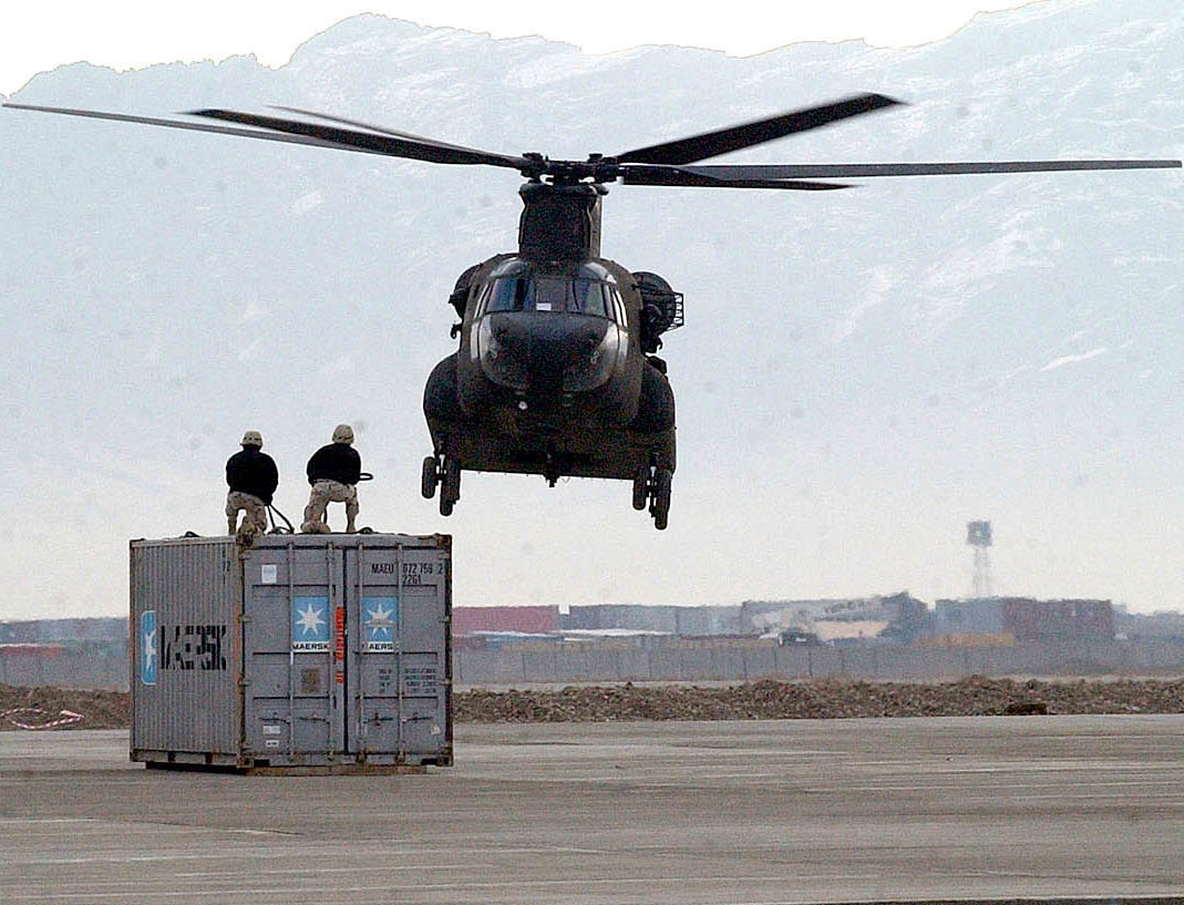 CH-47 Chinook Soldiers from Joint Task Force Wings—a composite force of Soldiers and Marines—prepare to slingload a container of food and medical supplies that will be airlifted by CH-47 Chinook to the snowbound village of Jildalek, Afghanistan